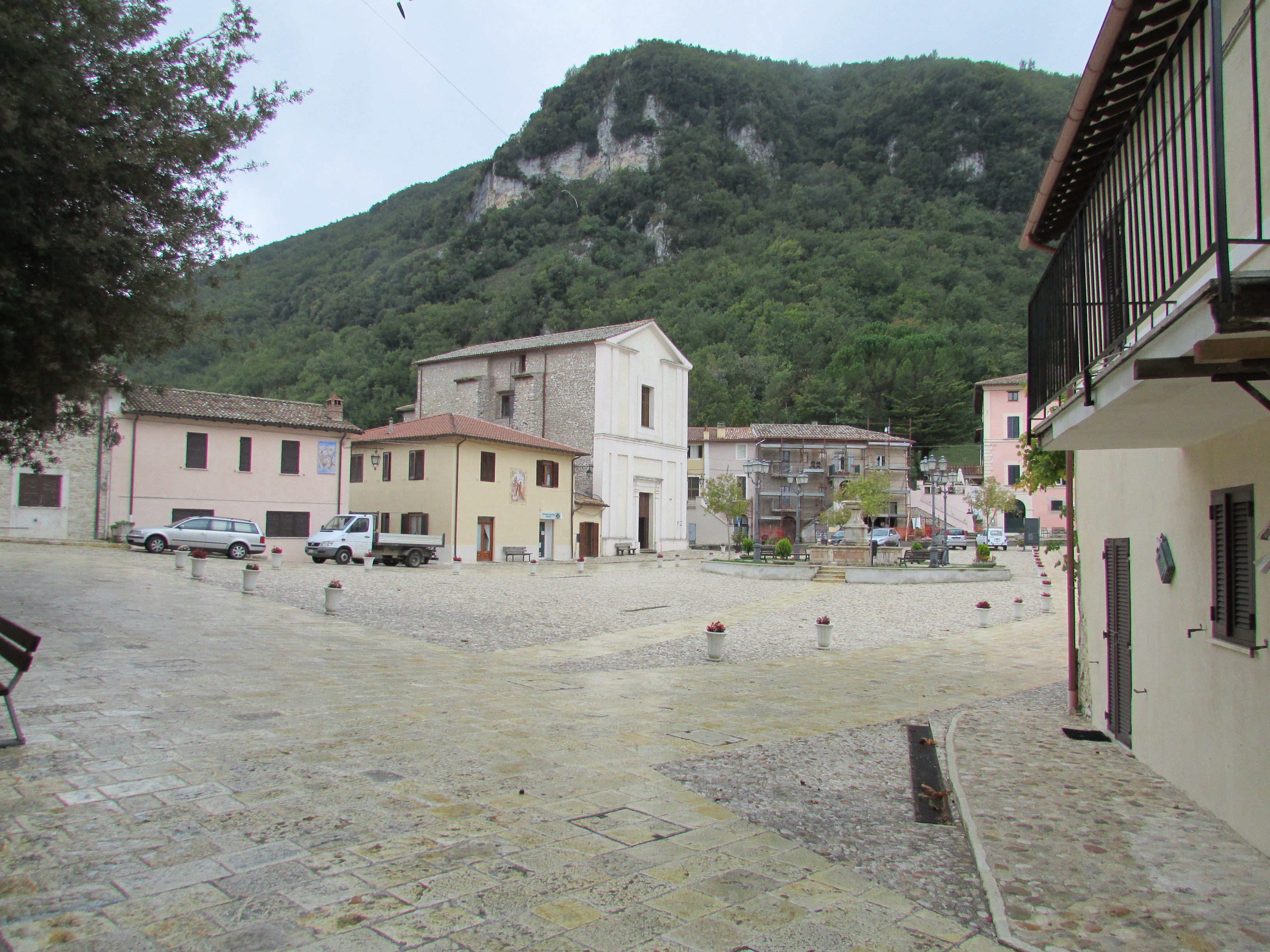 Main piazza in Greccio, Italy